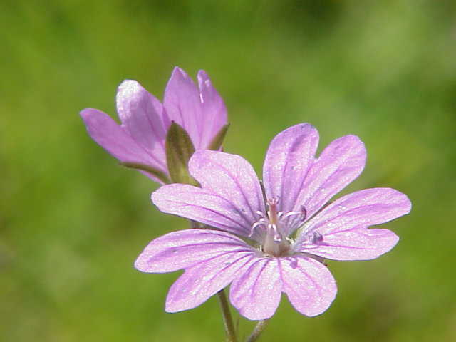 Species: Geranium pyrenaicum Family: Geraniaceae Image No. 2